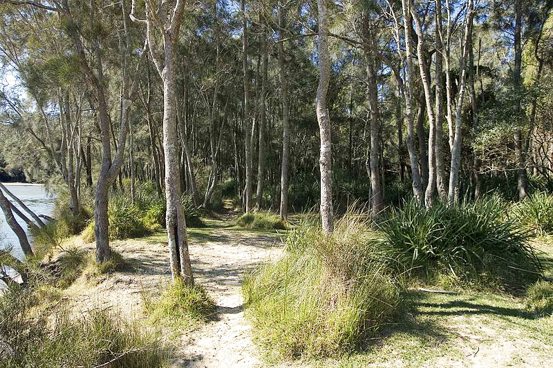 Royal National Park NSW 2233, Australia